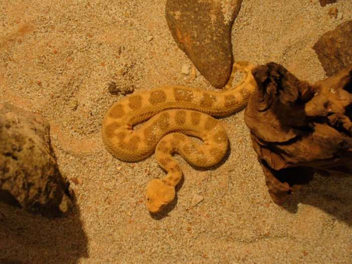 Cerastes cerastes